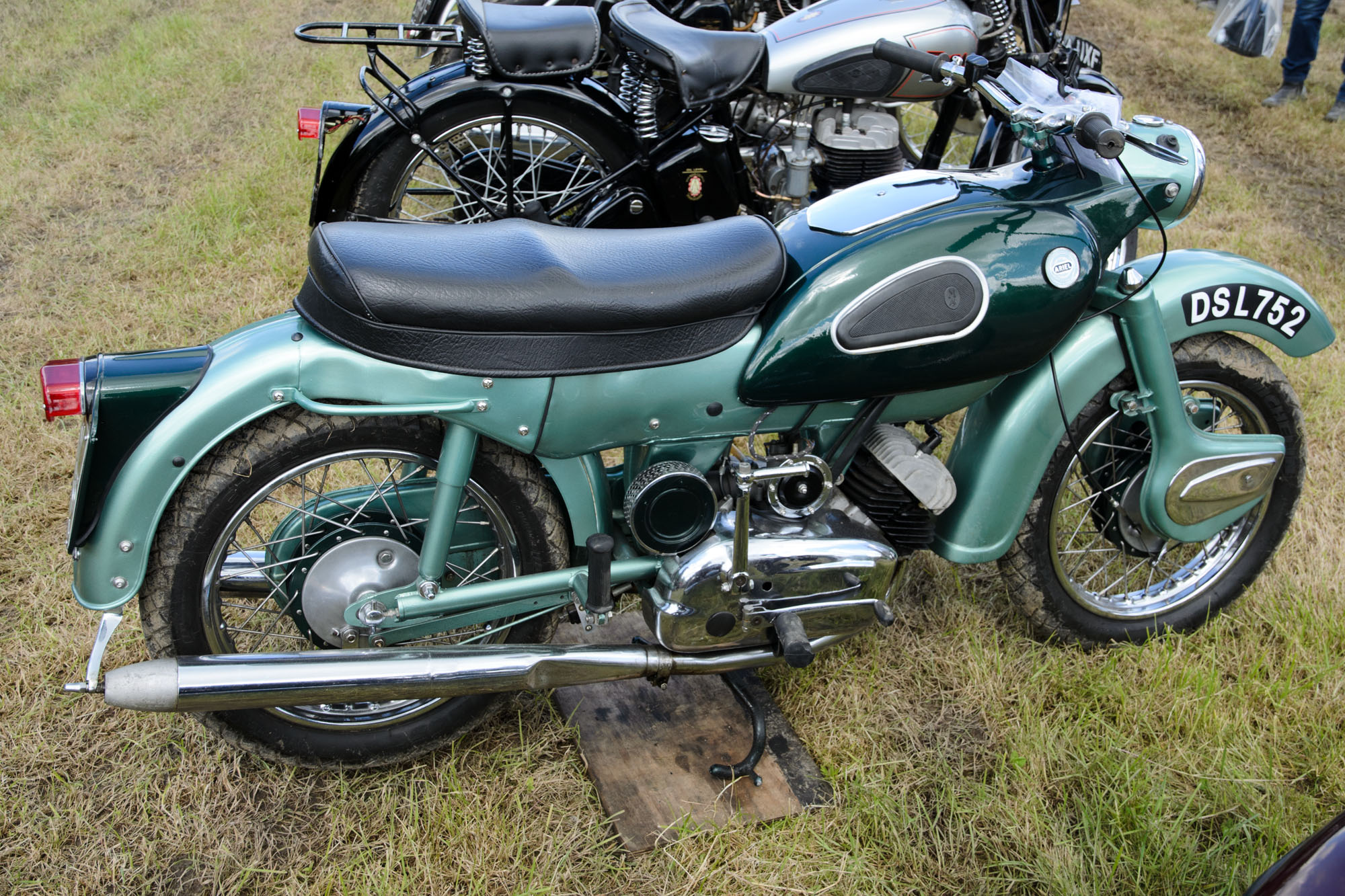 Heskin Hall Steam Fair 30/05/2015